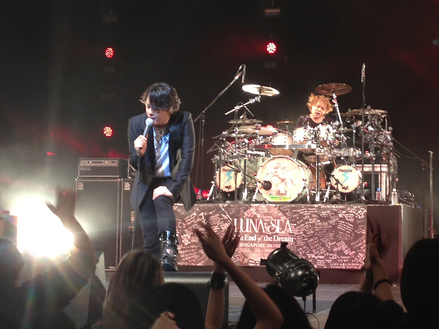 Luna Sea members Ryuichi and Shinya performing in Singapore on February 8, 2013.